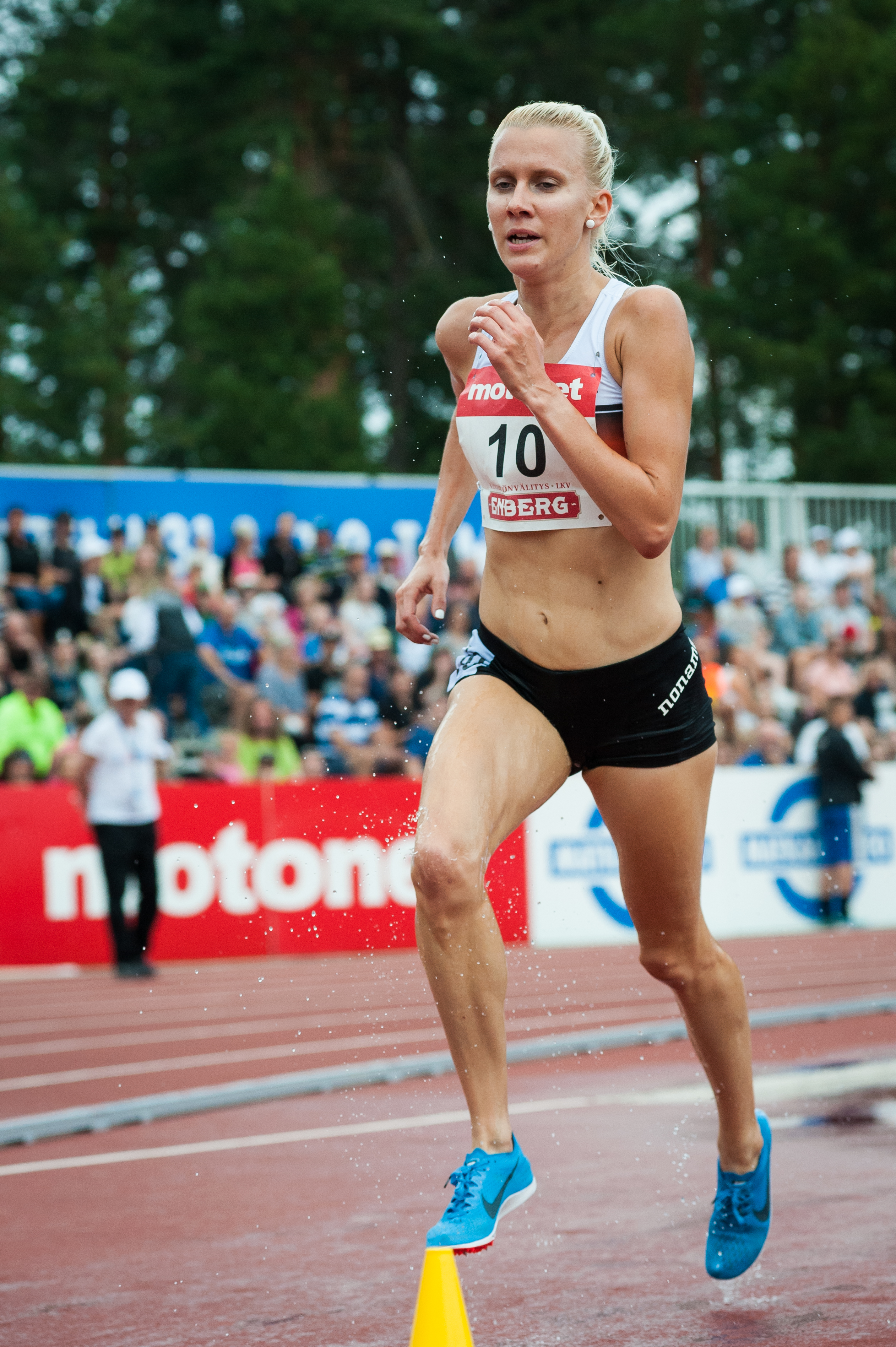 Women's 3000 m steeplechase competition at the 2018 Kalevan Kisat, the Finnish championships in athletics, in Jyväskylä, Finland.